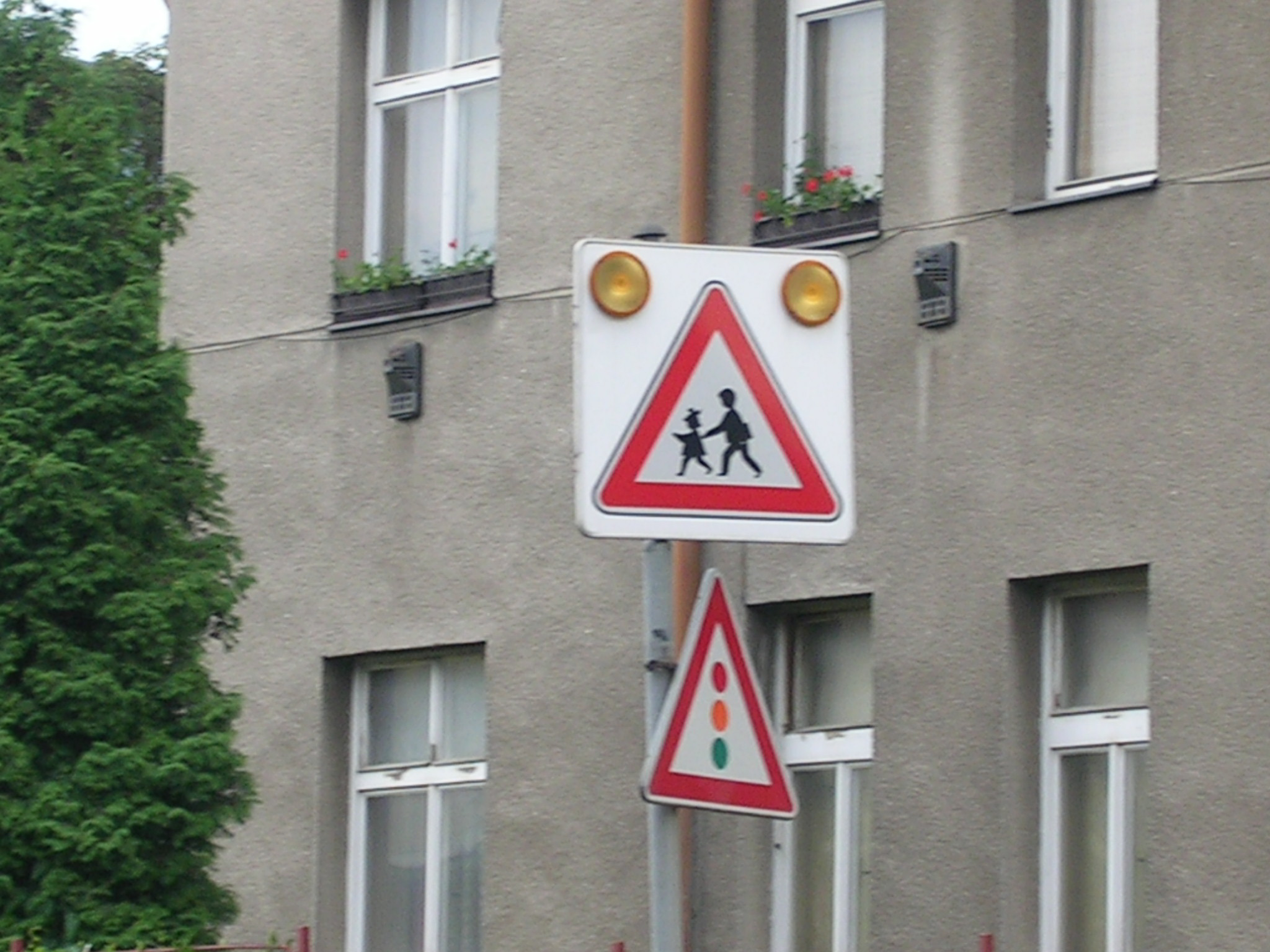 Říčany, Central Bohemian Region, the Czech Republic.